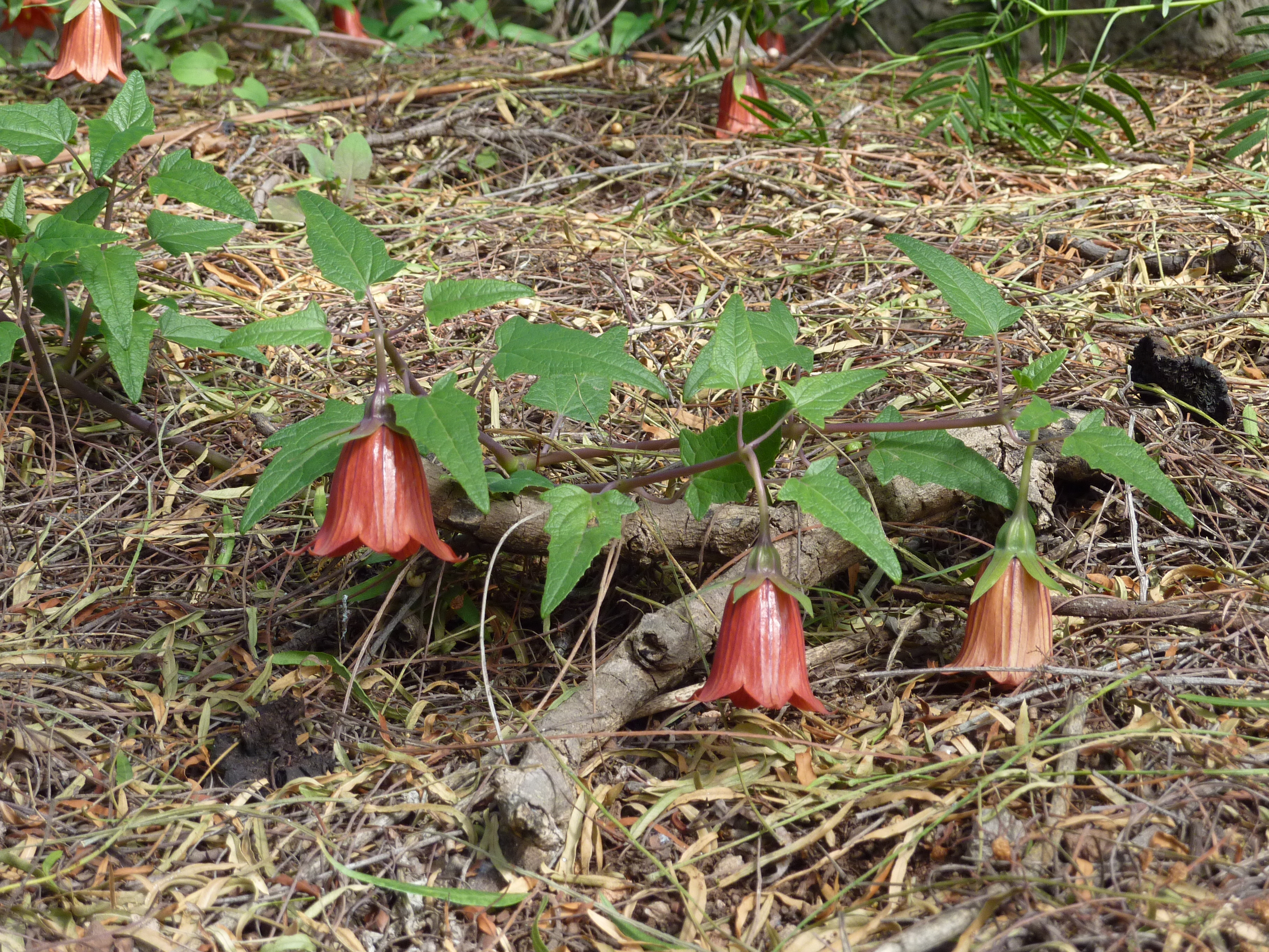 Canarina canariensis in the Jardín Botánico Canario Viera y Clavijo.